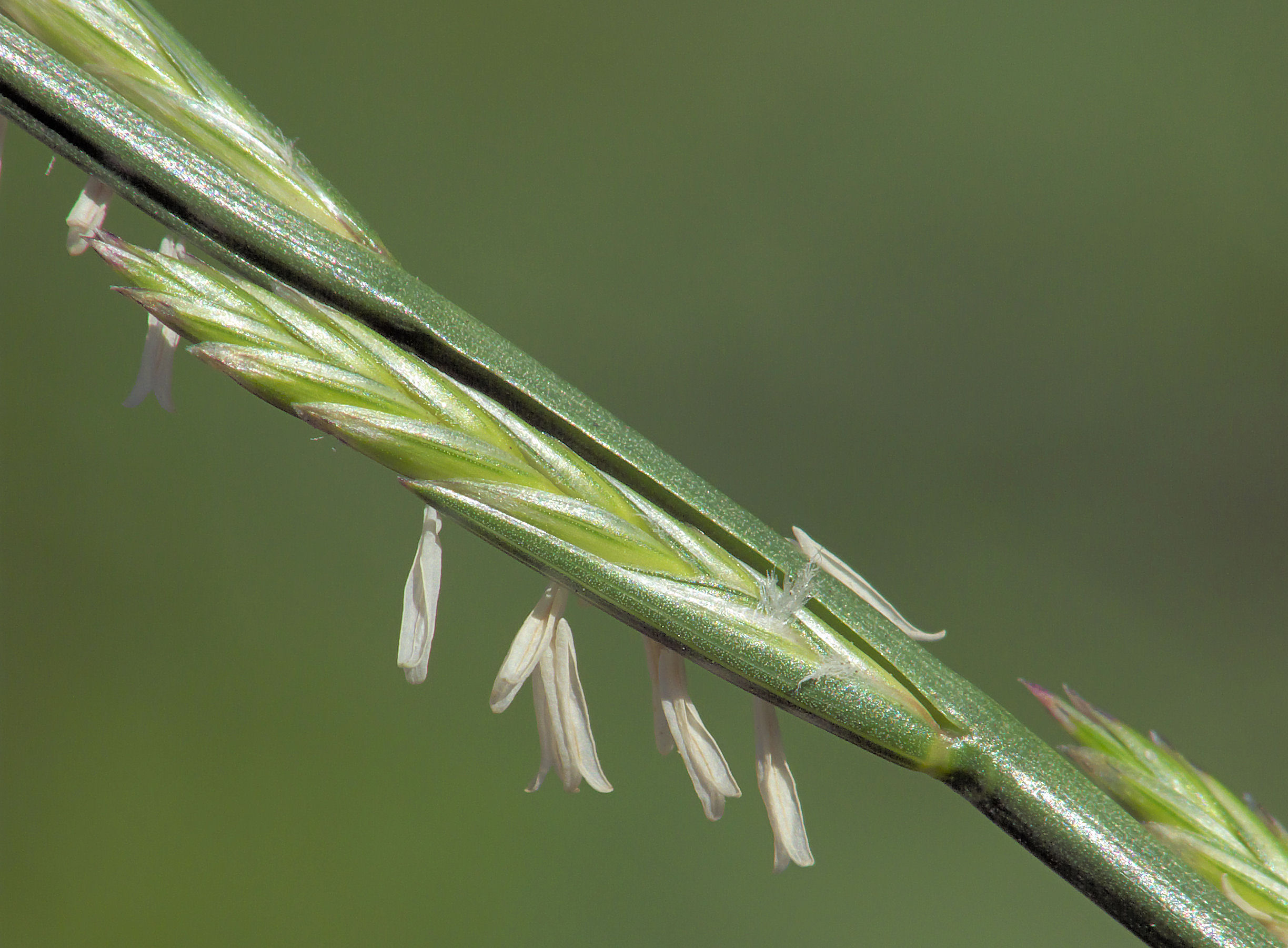 Lolium perenne flowers